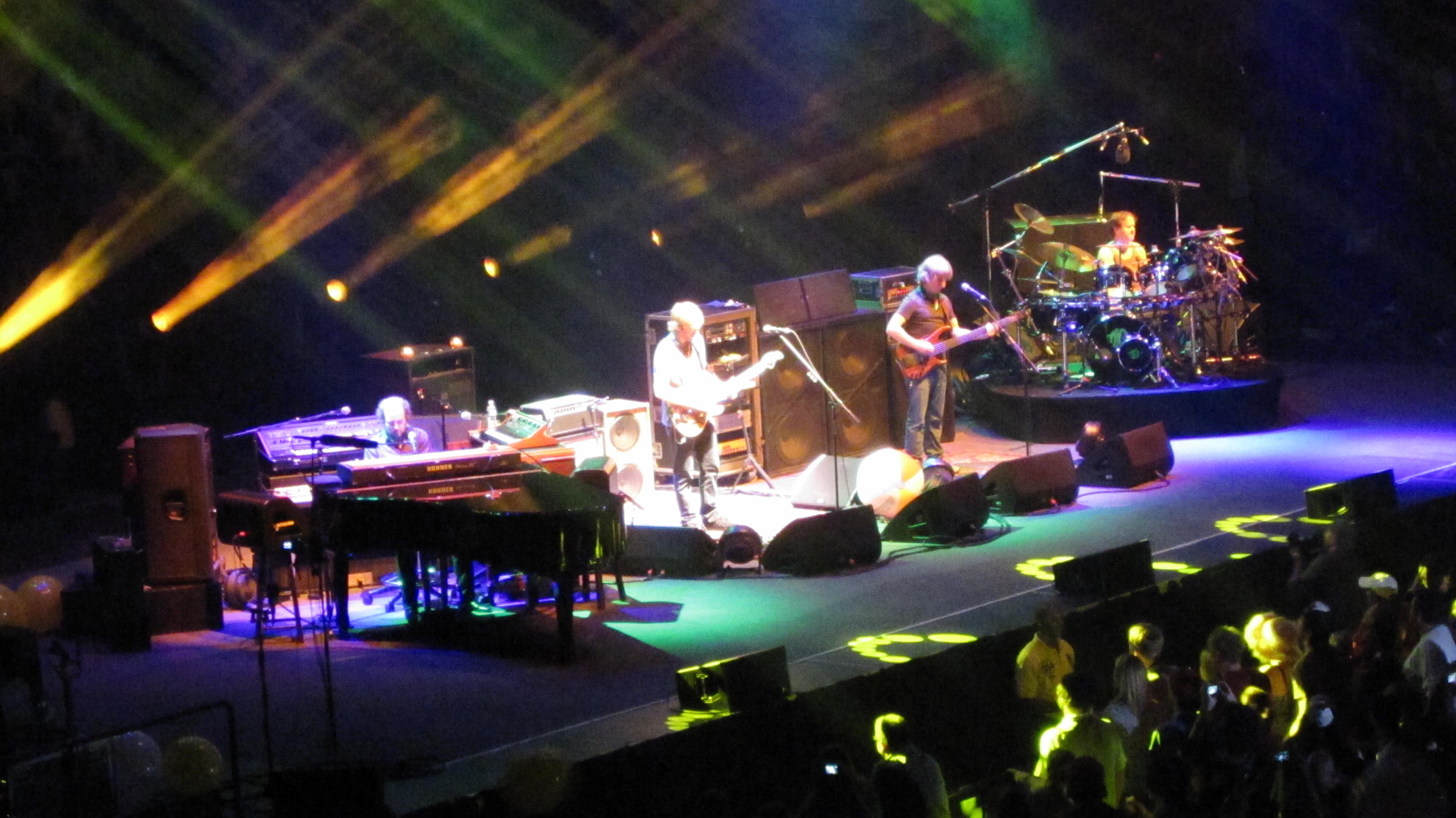 Phish playing at Miami on december 30, 2009. From left to right : Page McConnell, Trey Anastasio, Mike Gordon, John Fishman